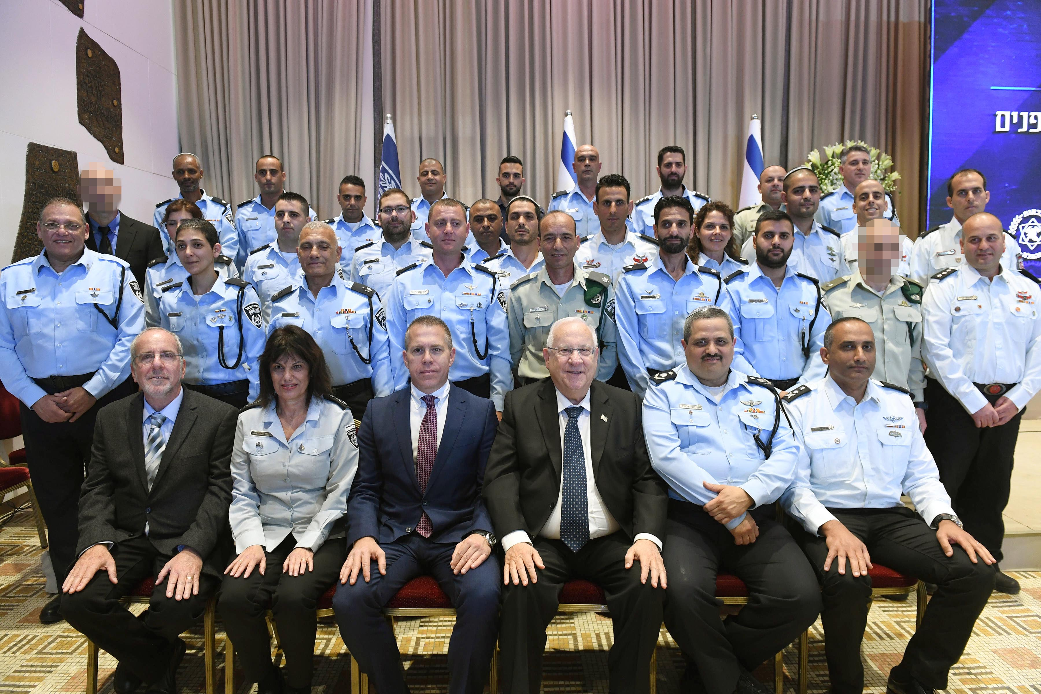 President of Israel, Reuven Rivlin, and the and the Minister of Public Security award the public security excellence awards to 28 outstanding police officers, the Israel Prison Service, Israel Witness Protection Authority (heb.) and Israel Fire and Rescue Services. Tuesday, February 27, 2018. Photo Credit: Mark Neyman / GPO.